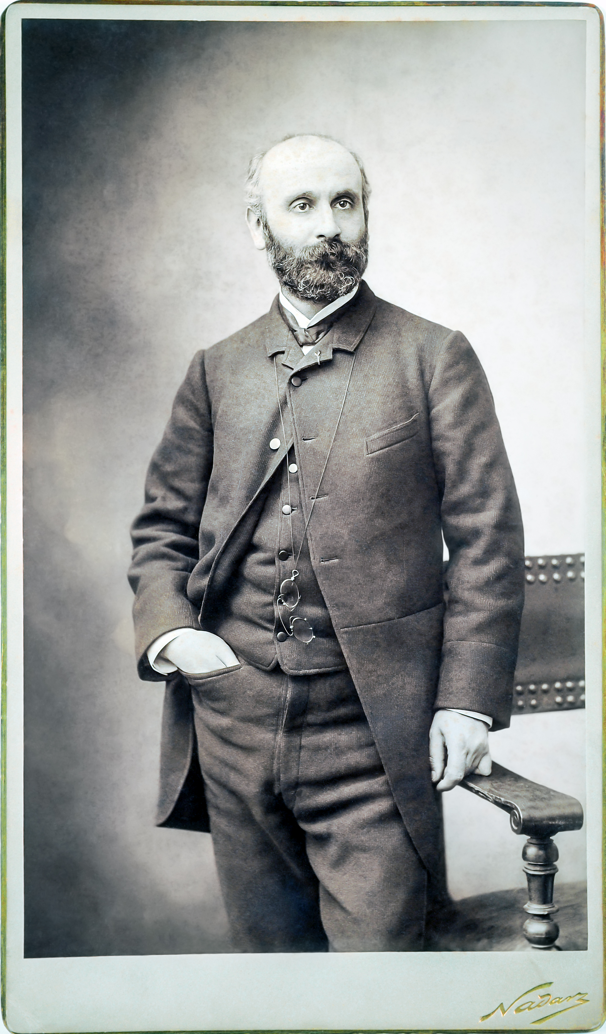 Eugène Trutat by Nadar. albumen paper pasted on cardboard, 1875. Size : 19,5x33 cm. Source: Library and Documentation Service Museum of Toulouse